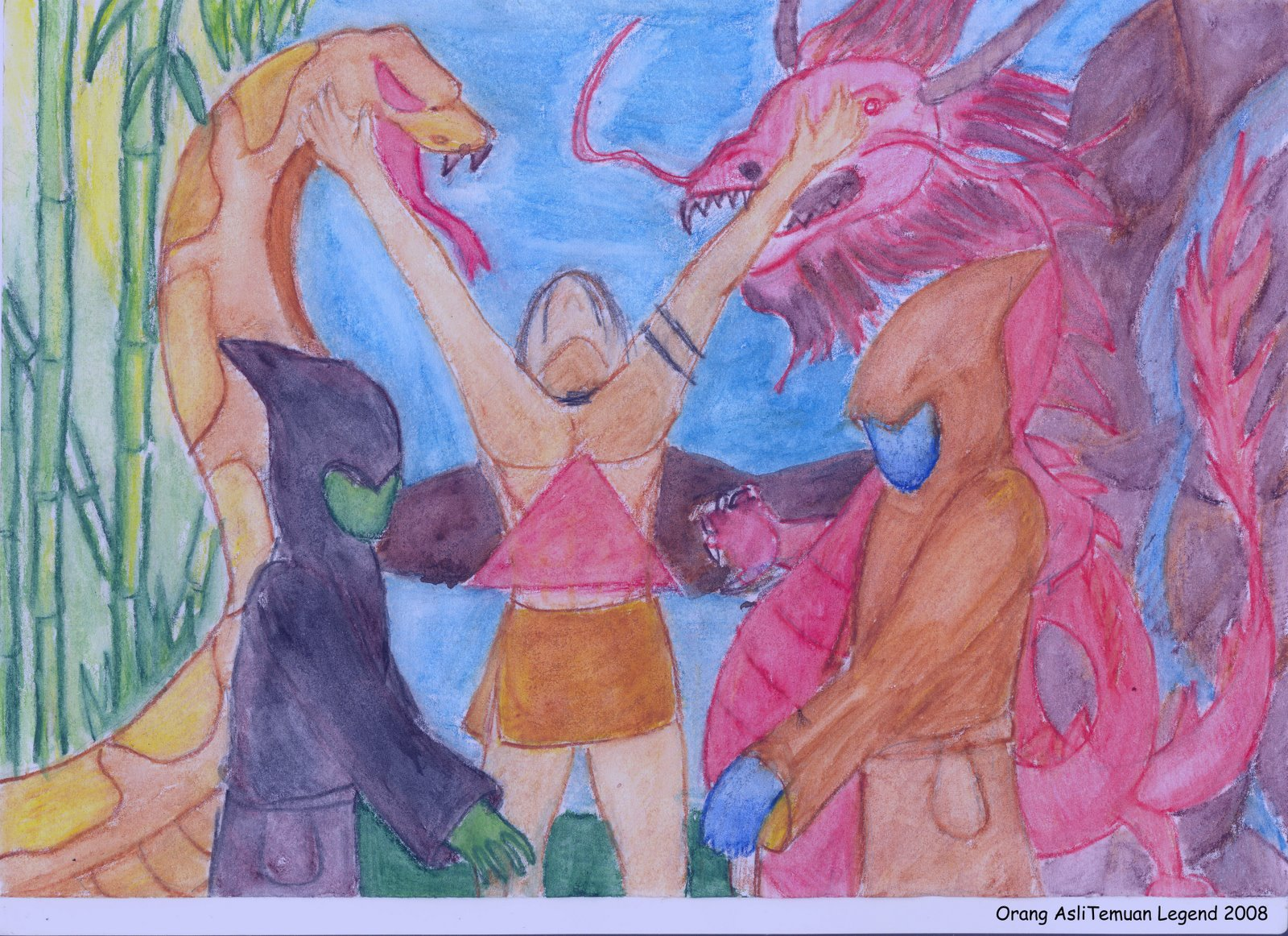 The Temuan believe every places, every river, every oceans in this word had its guardians...